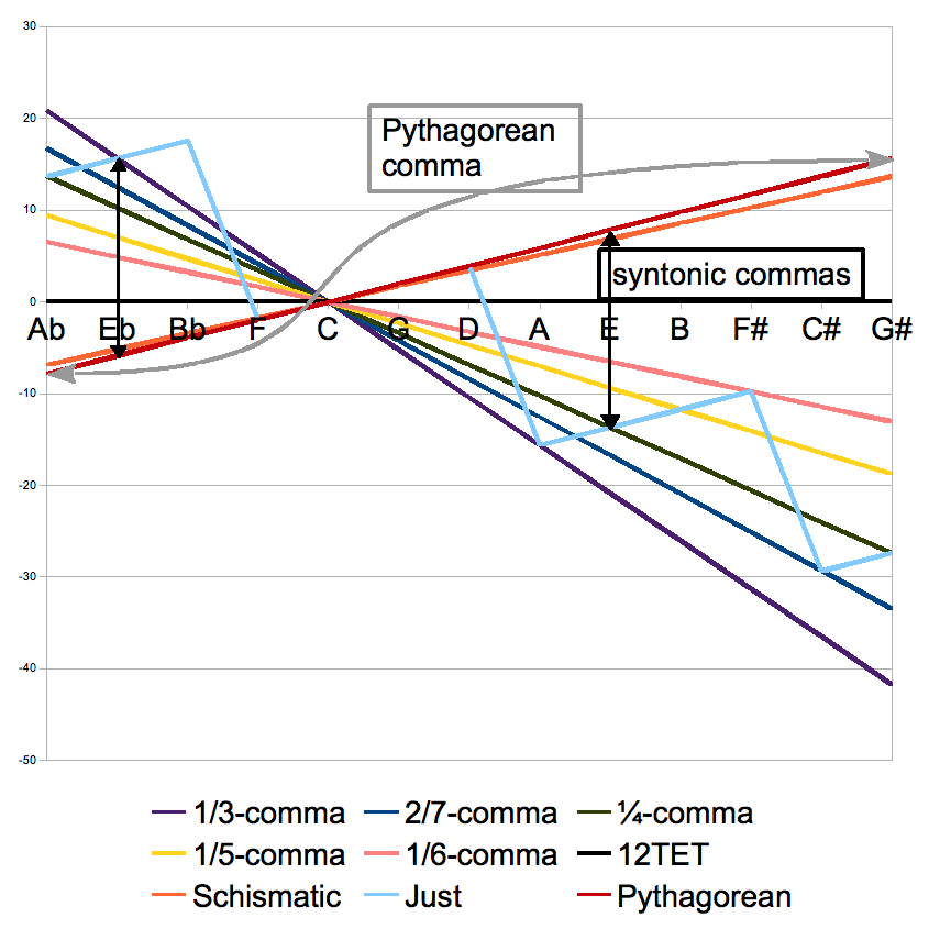 1/4 and 1/3-tone meantone compared to 12TET, Pythagorean, and just intonation.